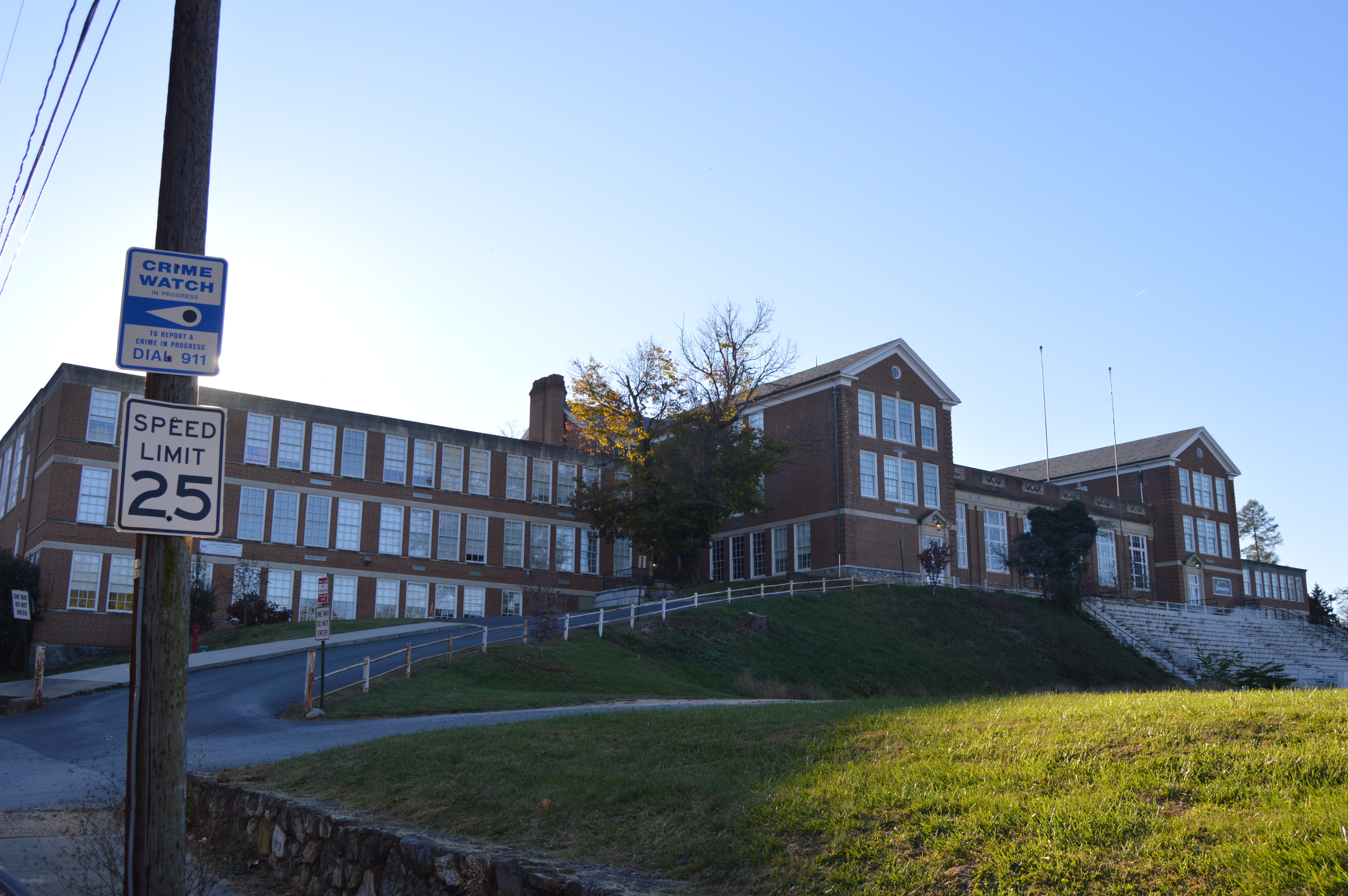 Front of the former Robert E. Lee High School, located at 274 Churchville Avenue in Staunton, Virginia, United States. Built in 1926 and since converted into the Gypsy Hill Place elderly housing, it is listed on the National Register of Historic Places.